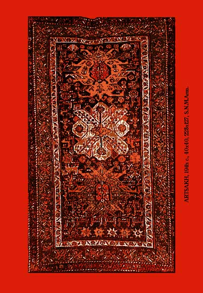 Armenian carpet from Artsakh